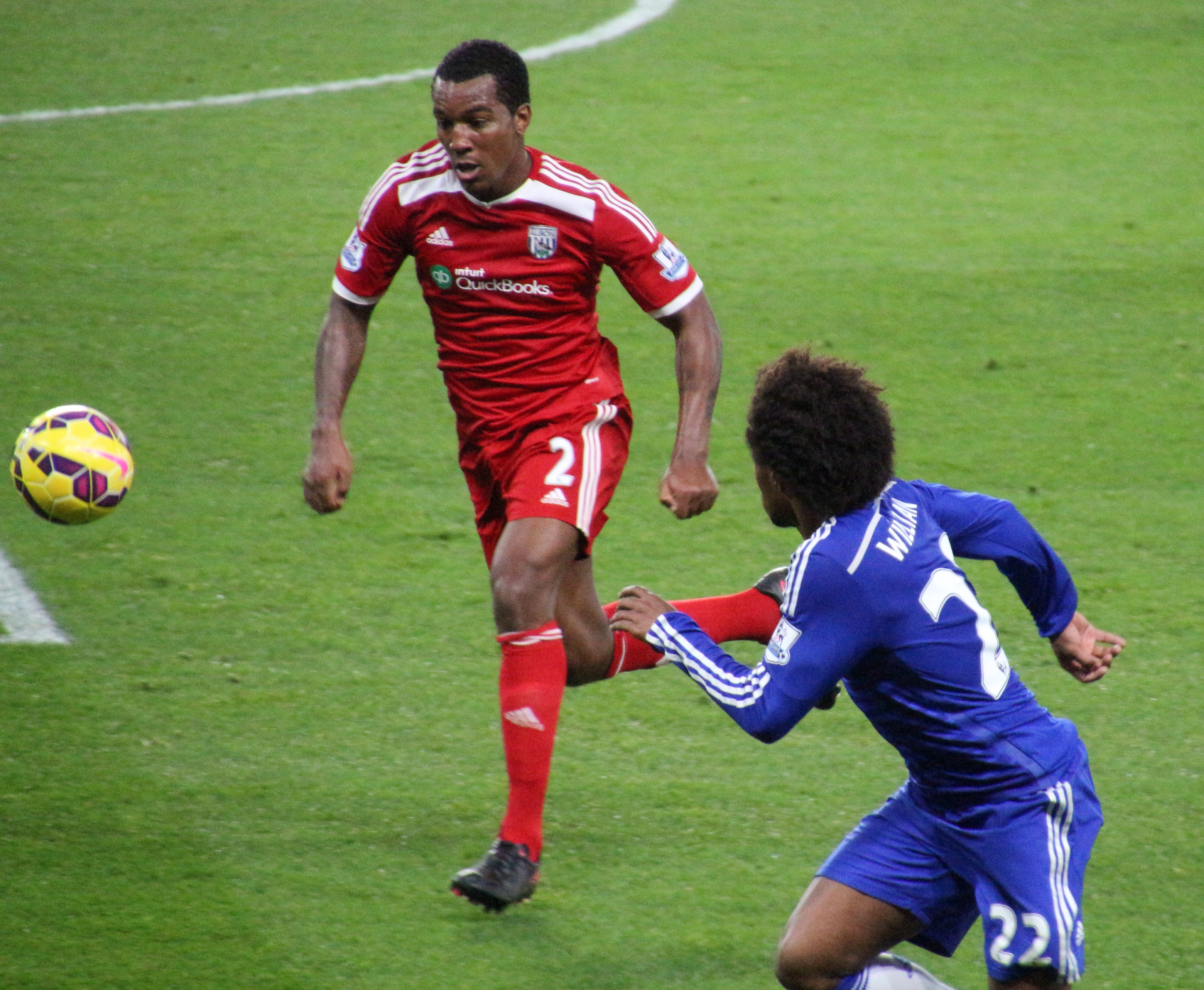 Chelsea 2 West Brom 0 The Blues go marching on